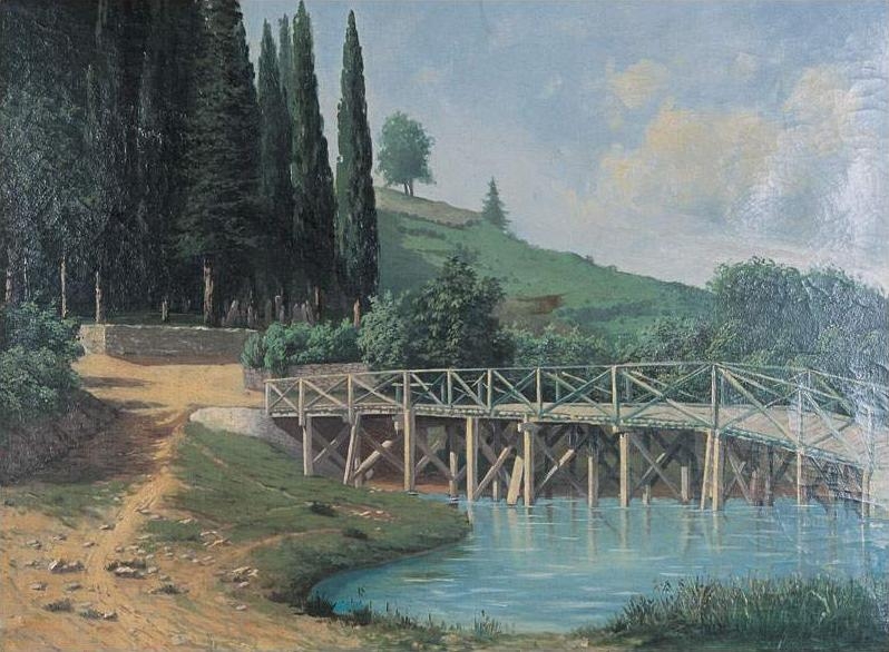 Sünnet Köprüsü (Ahmet Ziya Akbulut)